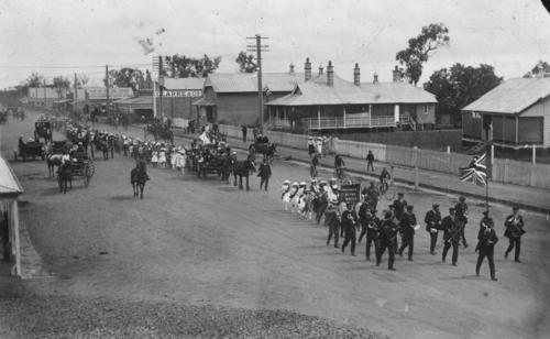 Location: Pittsworth, Australia Date: ca. 1915 Description: Possibly the Dalby Band heading the parade. A banner being carried in the front group of marchers reads Children of the Empire and another person is carrying the Union Jack. View this page at the State Library of Queensland Information about State Library of Queensland’s collection